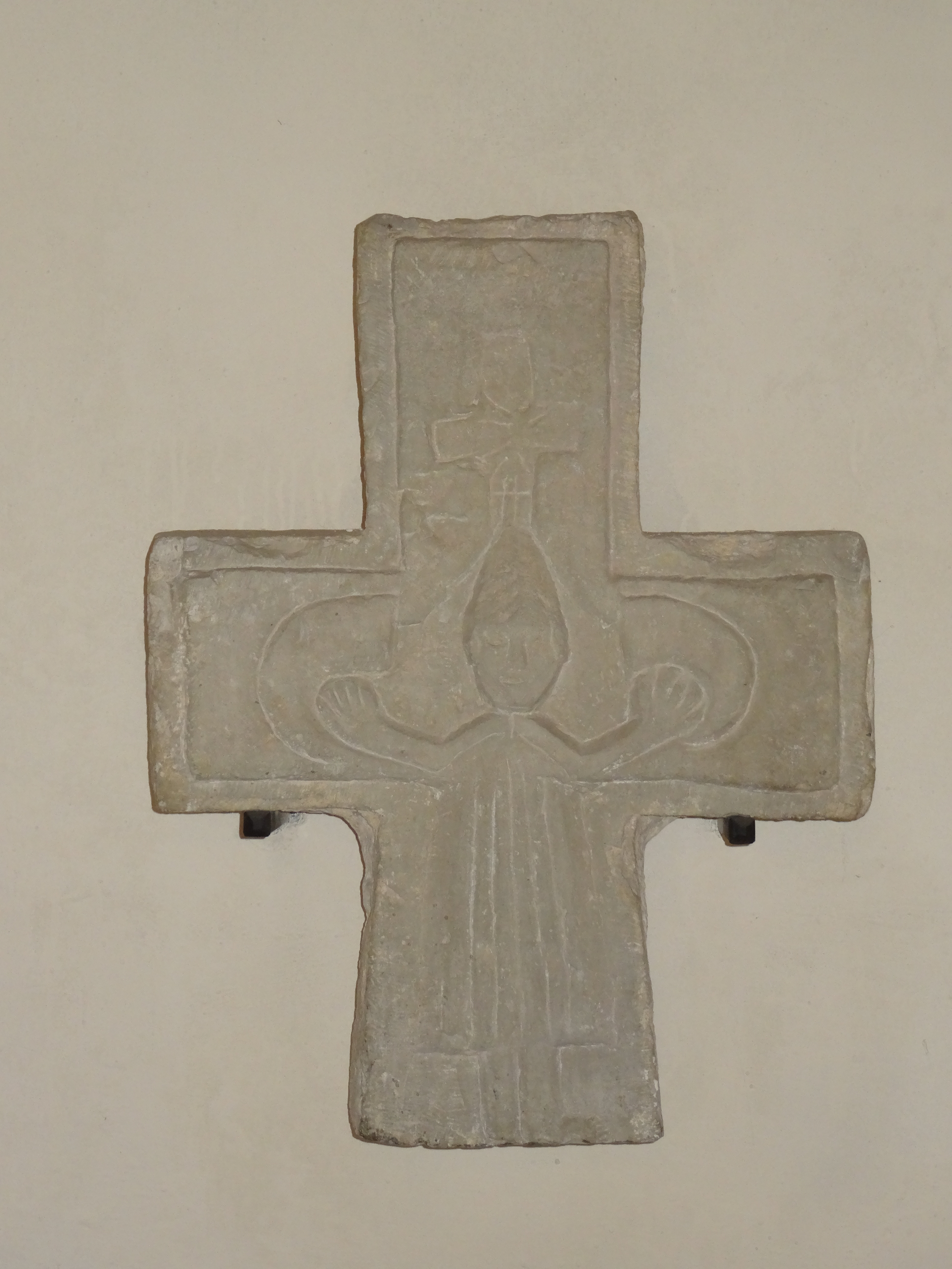 The so-called bishop's cross in Vigala church (late 13th century)